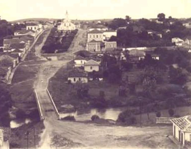 Andrelândia city, Minas Gerais, Brazil in 1930.